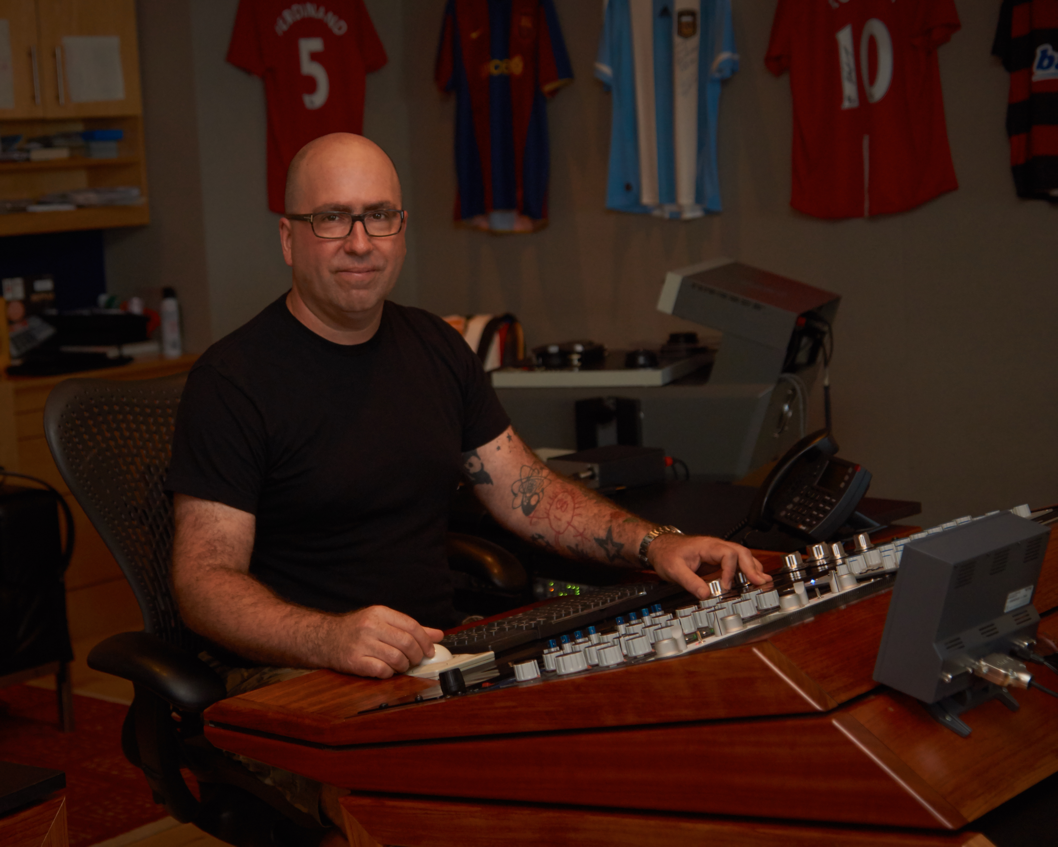 Chris Gehringer in his room at Sterling Sound